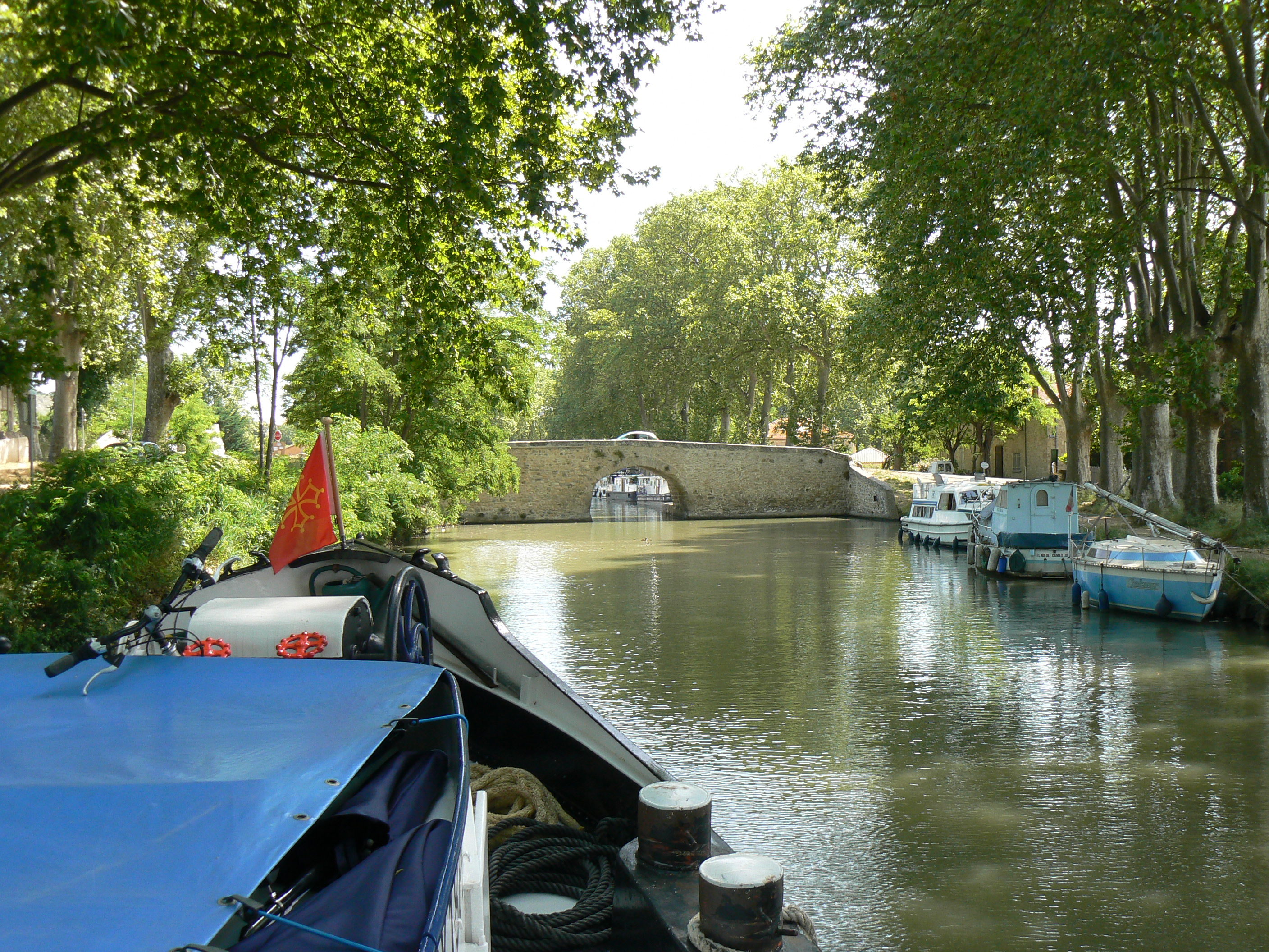 The Anjodi hotel barge approaching a very tight squeeze through the bridge in Capestang, France